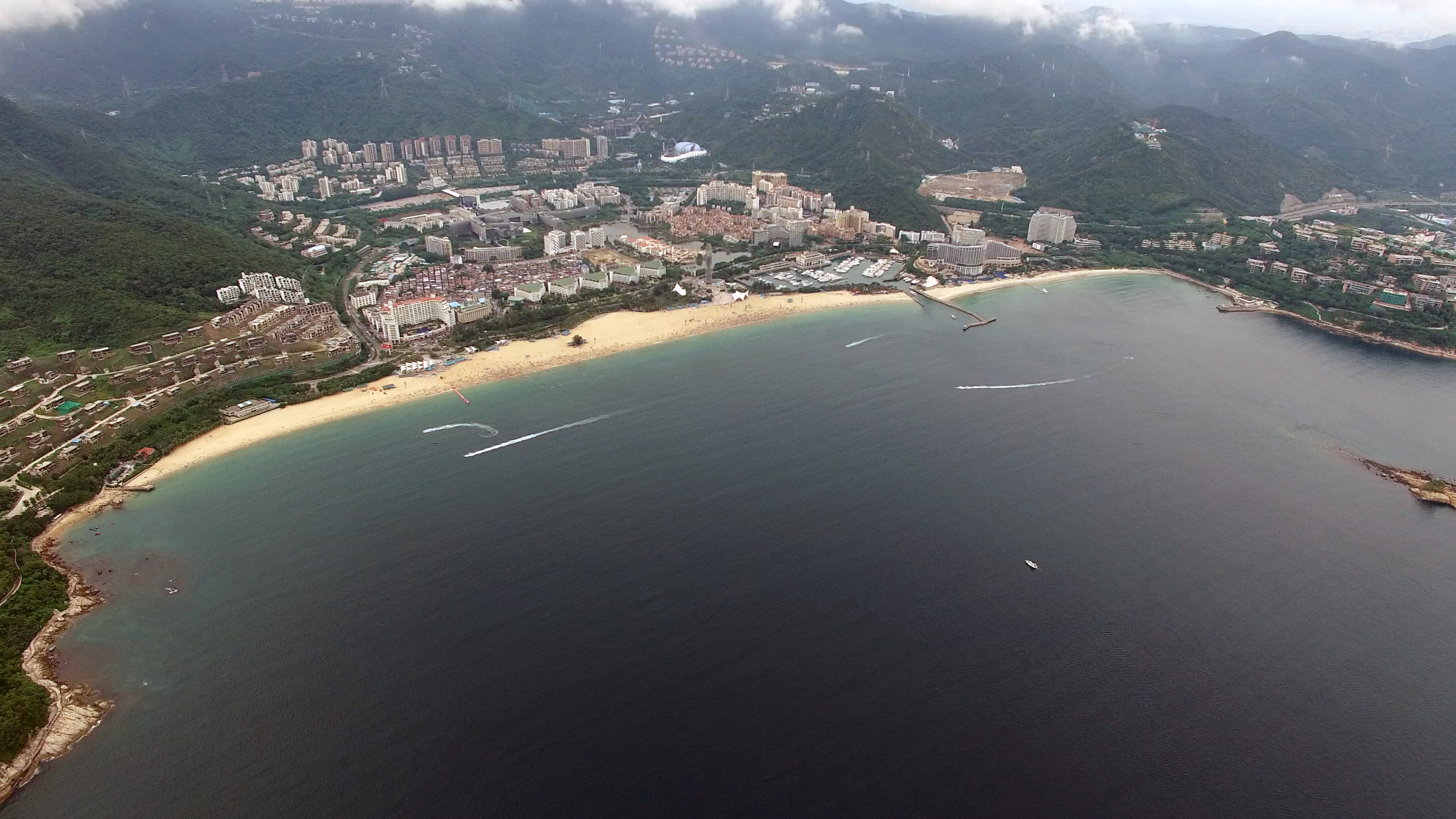 Dameisha viewed from the sea - 300 meters high